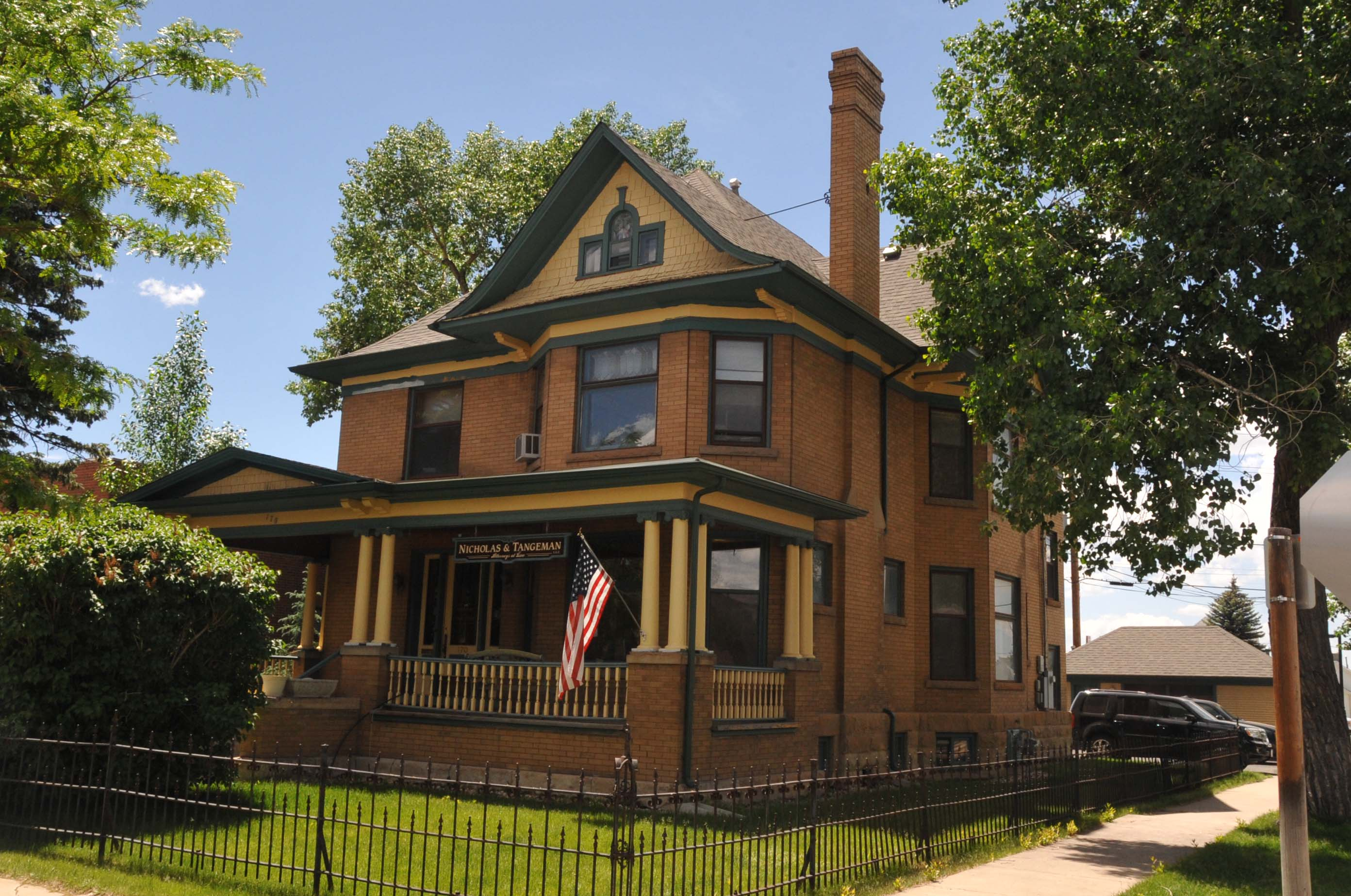 VICTORIAN 1911-1912